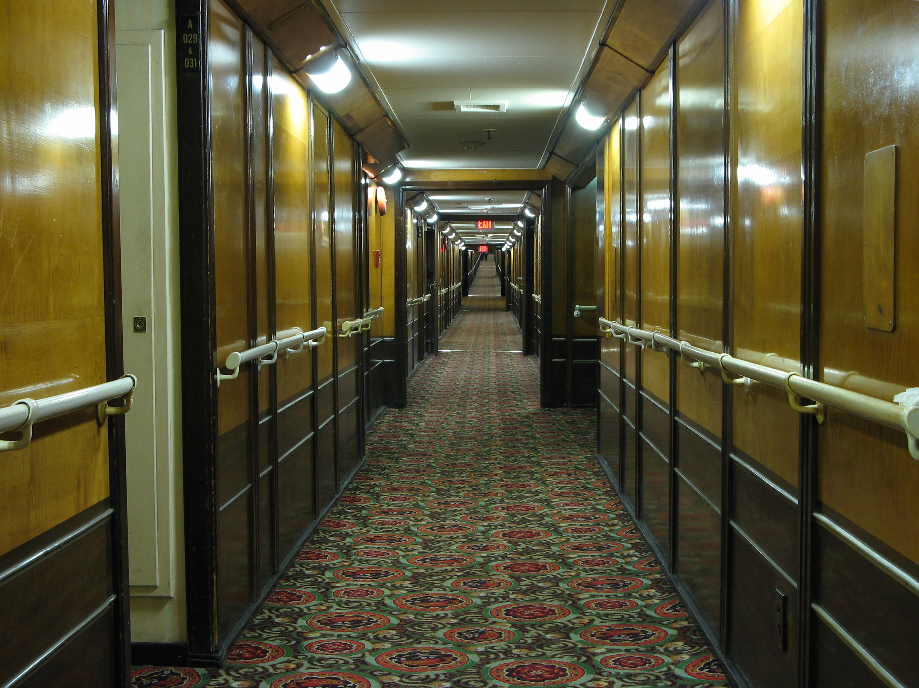 A main passageway in First Class Accommodations